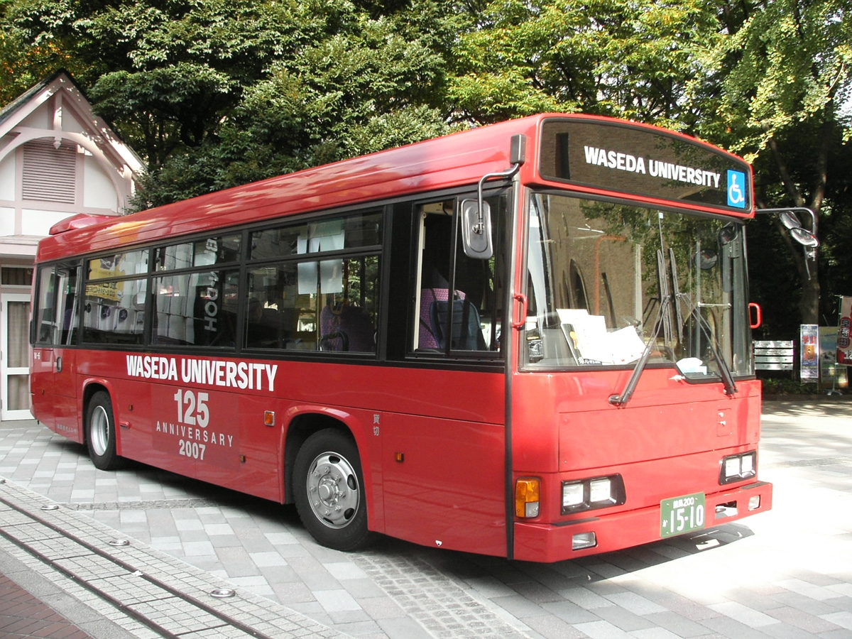 “School_bus” Waseda University Waseda University address = 1-6-1, Nishiwaseda, Shinjuku-ku, Tokyo